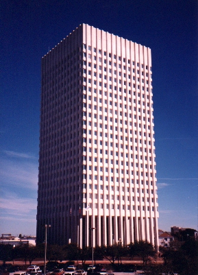 Moody Plaza, American National Insurance's Home Office in downtown Galveston, Texas